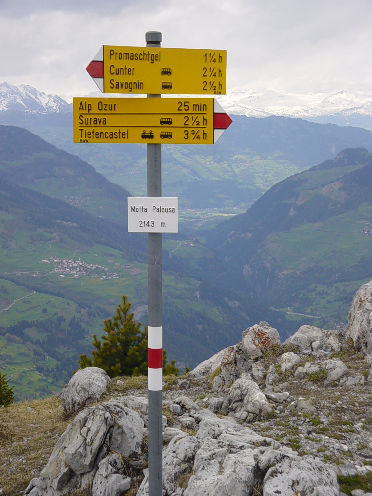 Fingerpost on Motta Palousa, Cunter, Tiefencastel, Grison, Switzerland